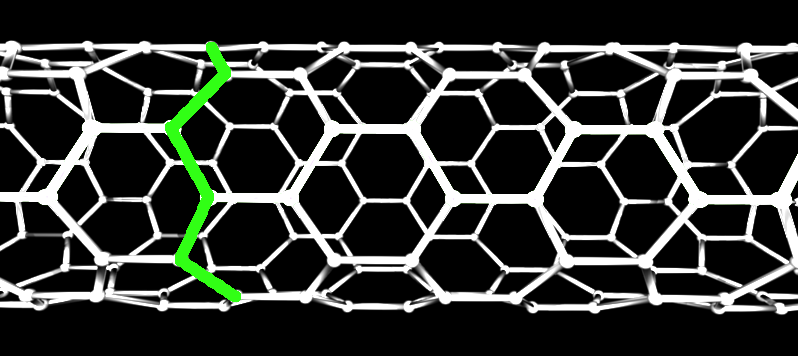 zin-zag nanotube